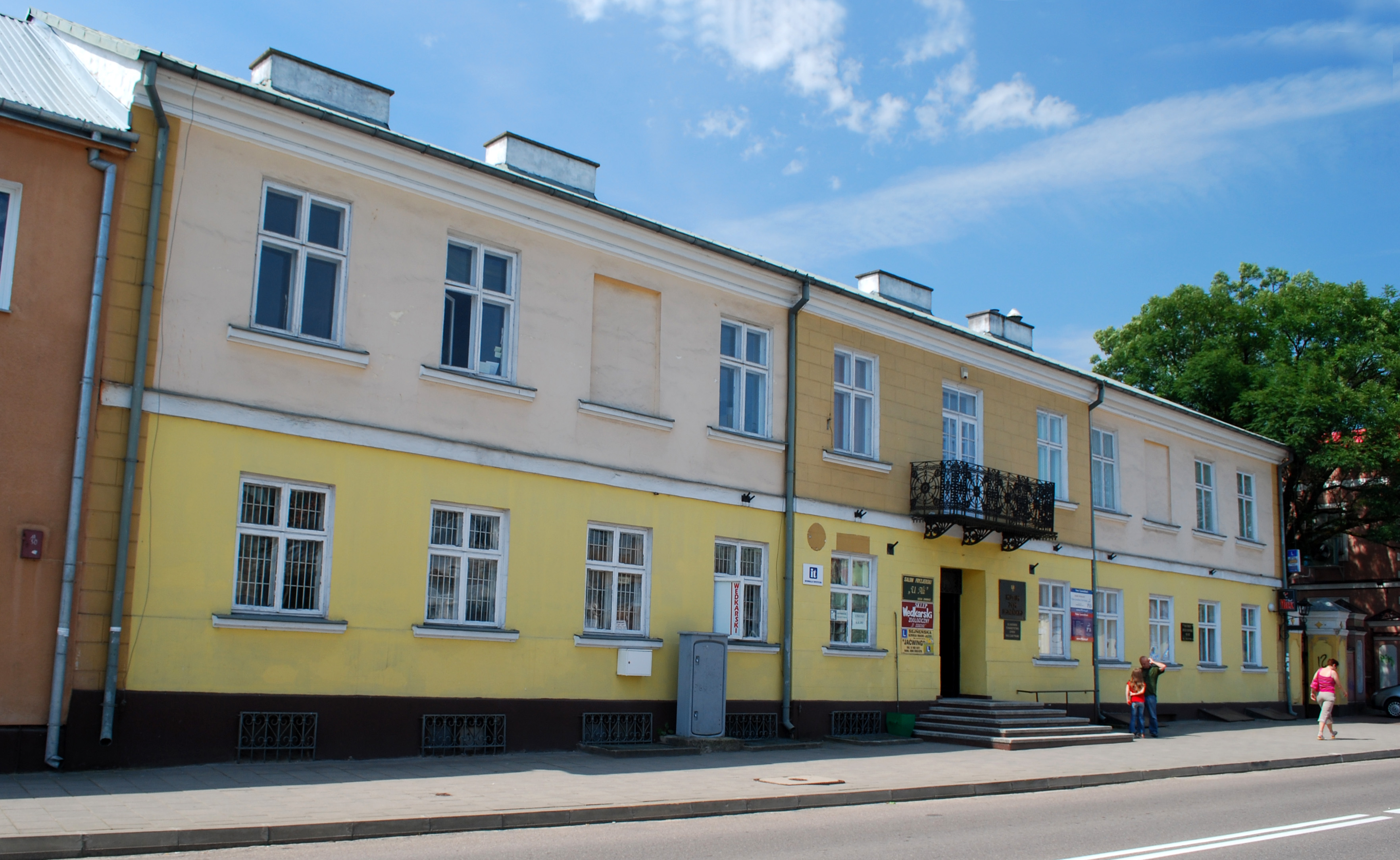 This photo from Podlaskie Voievodeship was taken during Polish Wikiexpedition 2009 set up by Wikimedia Polska Association. The making of this document was supported by Wikimedia Polska. Muzeum Ziemi Sejnienskiej w Sejnach.